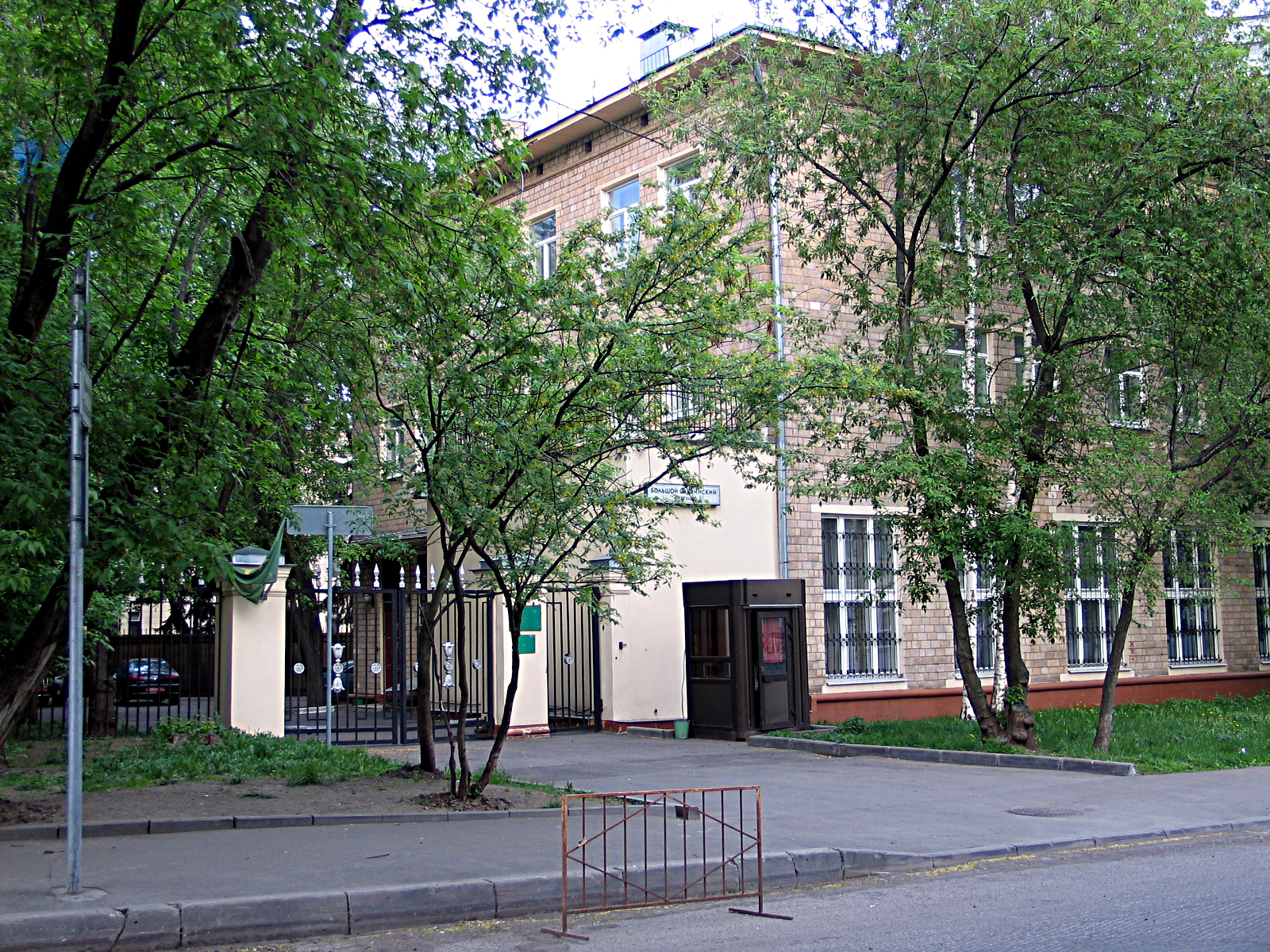 Building of the Embassy of Mauritania in Moscow